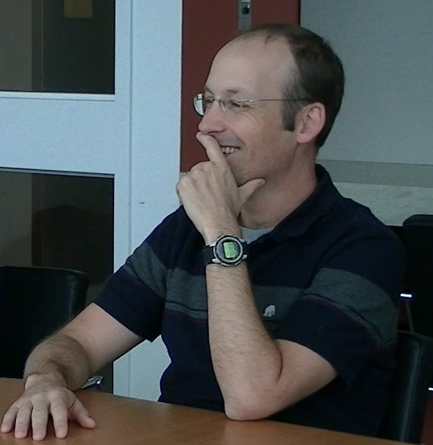 Physics blogger Rhett Allain